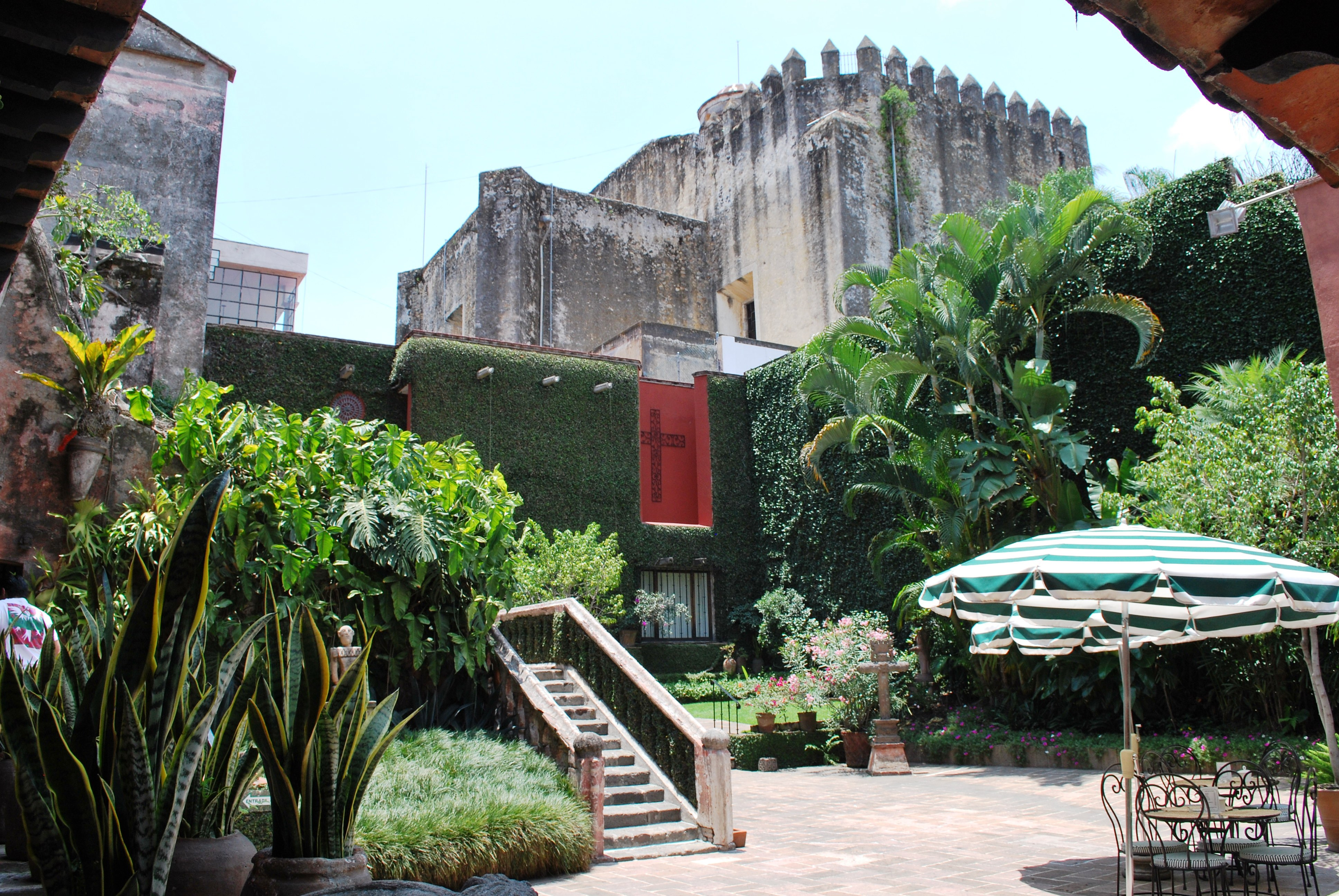 Inner courtyard of the Robert Brady Museum / Casa Torres located on Nezahualcoyotl Street in Cuernavaca, Morelos, Mexico